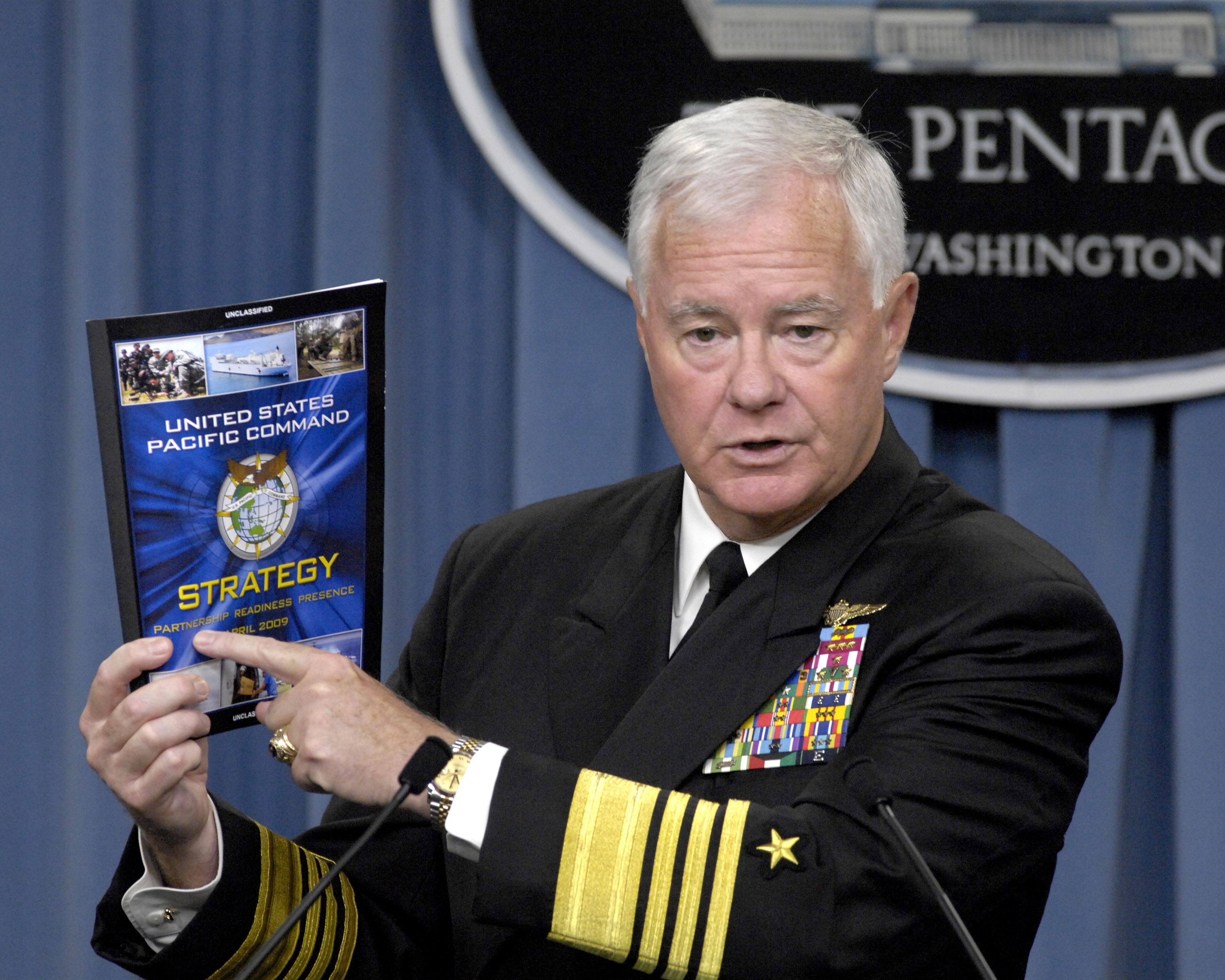 Commander of the U.S. Pacific Command Adm. Timothy J. Keating, U.S. Navy, holds a press briefing to update reporters on some of the activities over the past year of his broad geographical command in the Pentagon on July 22, 2009.